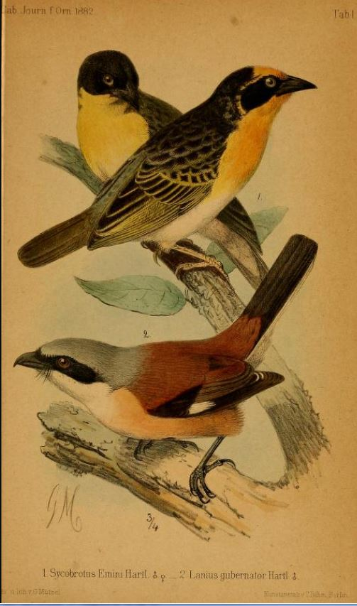 Ploceus baglafecht emini = Sycobrotus emini Figur 1 Lanius gubernator Figur 2